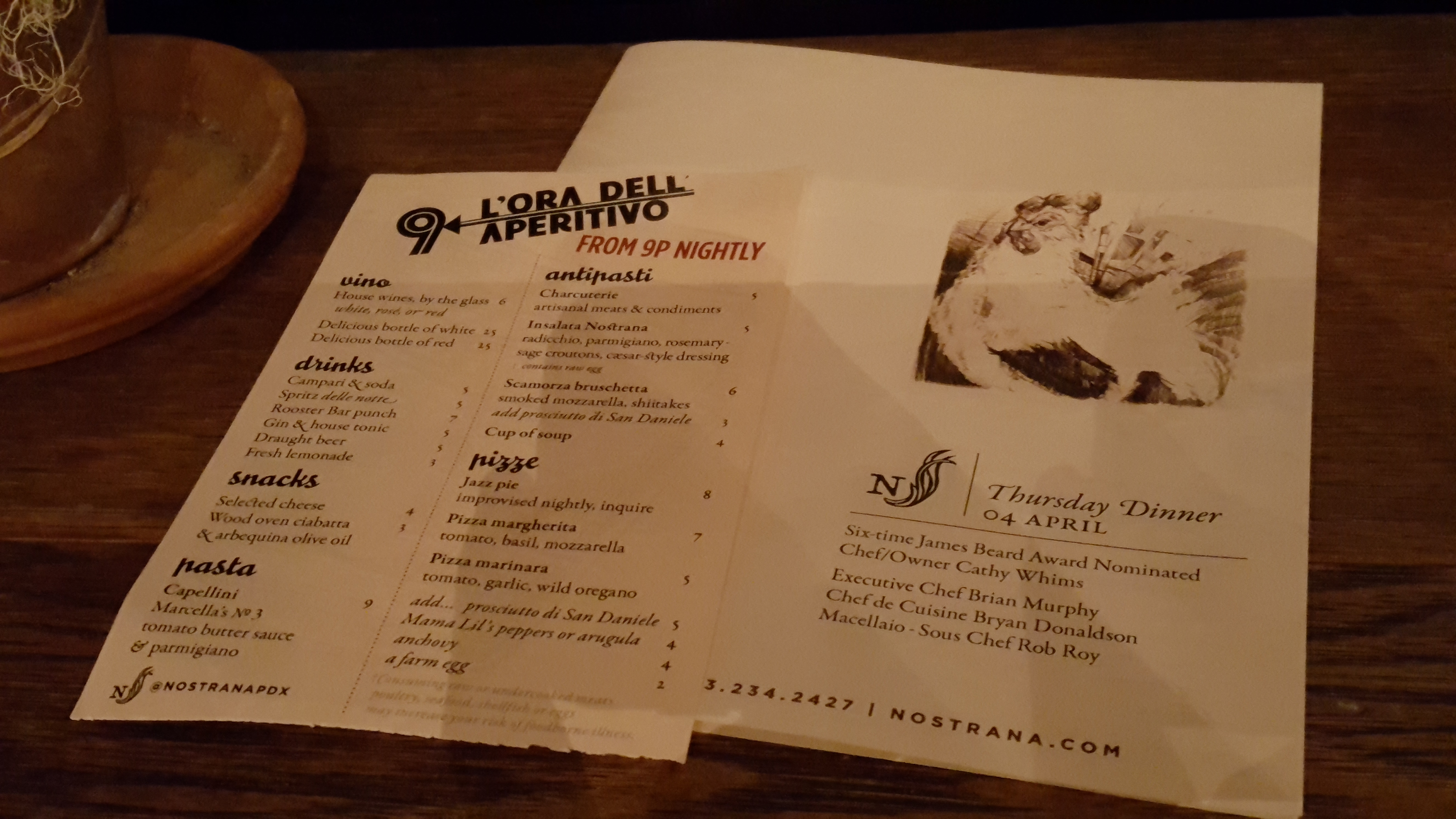 Nostrana, Portland, Oregon (2019)